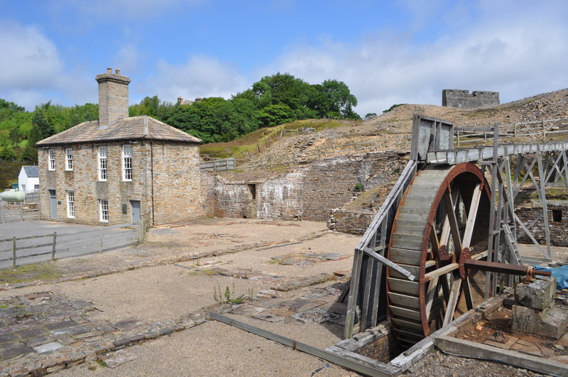 Nenthead Mines Smelt Mill, Data from Geograph: Description: A view of the Assay house and reconstructed waterwheel. The main smelter was here extracting lead, a building behind me extracted silver from the lead. ICBM: 54.78591857213, -2.3412815845573 Location: (about 0 km from) near to Nenthead, Cumbria, Great Britain.